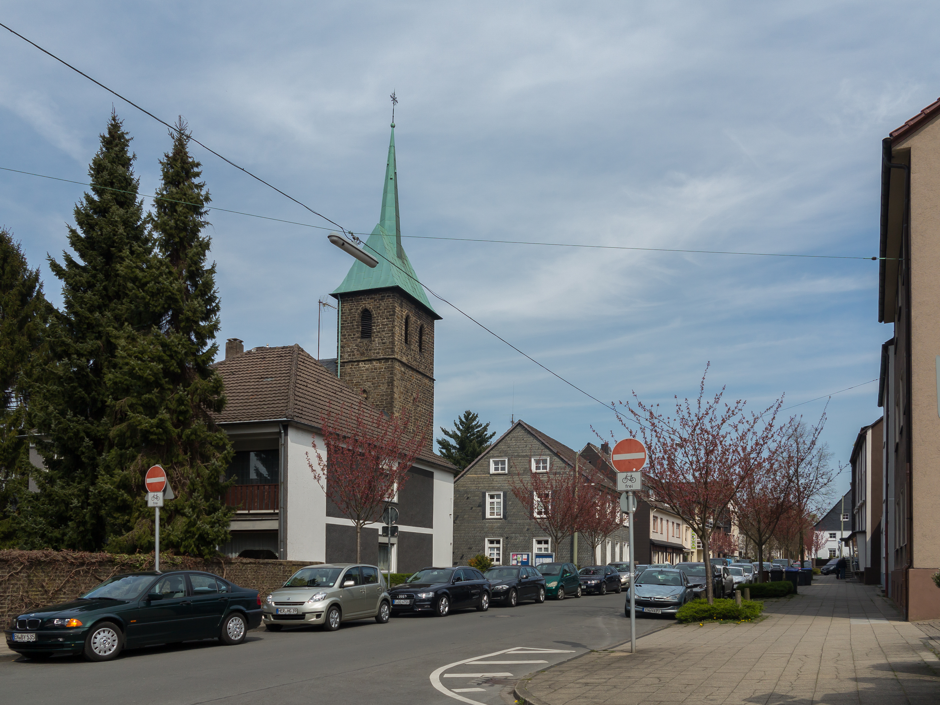 Roman catholic church St. Peter und Paul in Witten, Germany